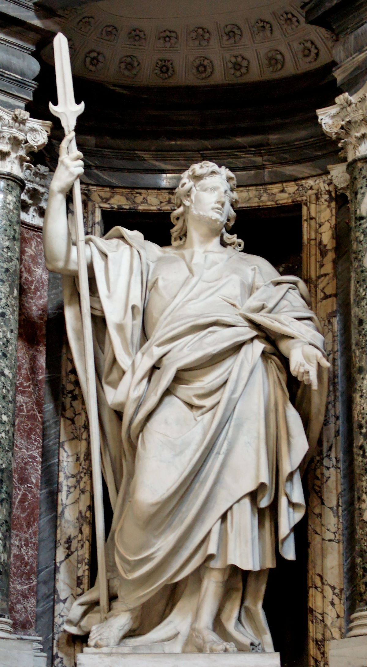 St. Jude Thaddeus by Lorenzo Ottoni. Nave of the Basilica of St. John Lateran (Rome).